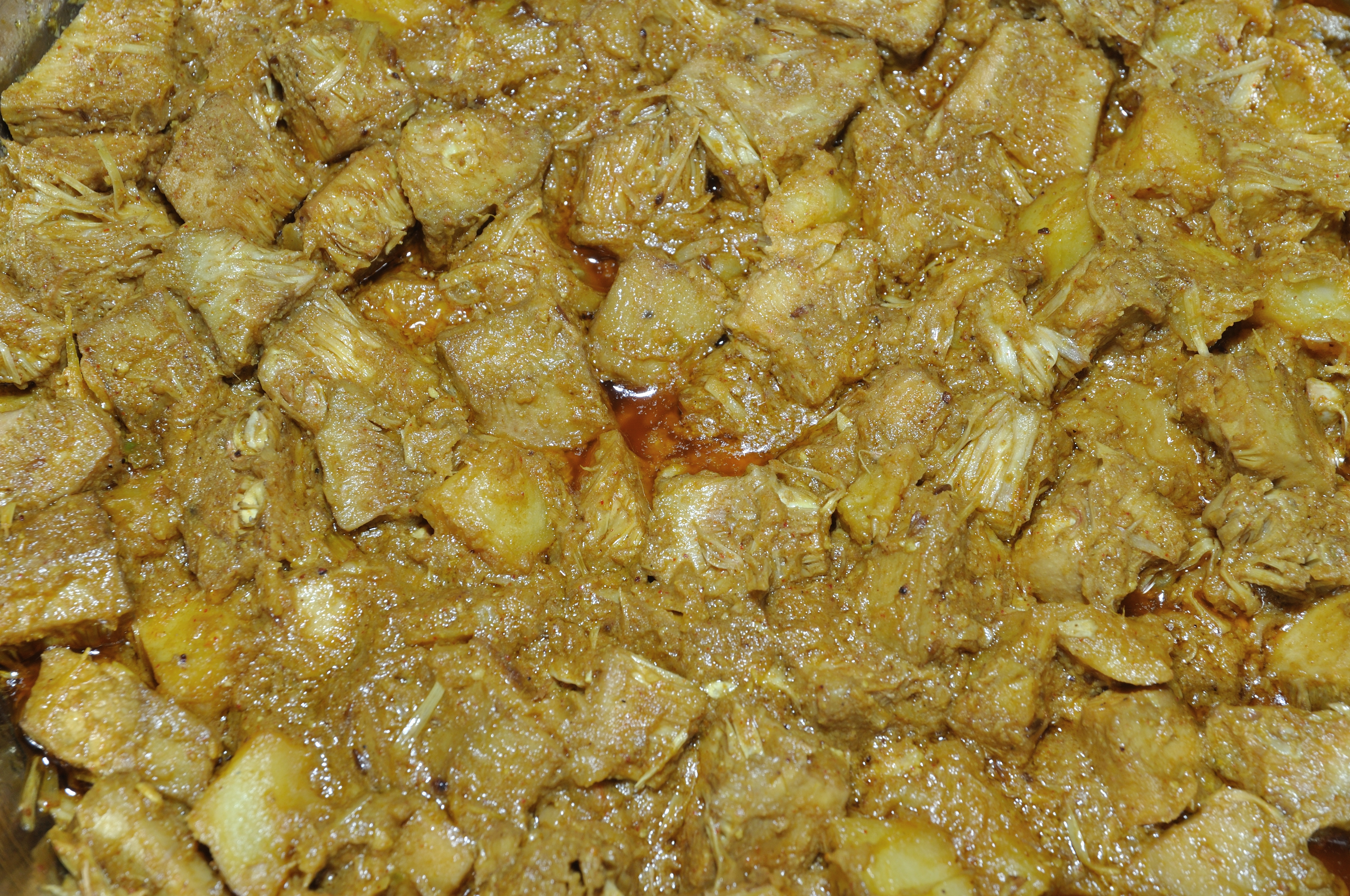 Popular West Bengal dishes.